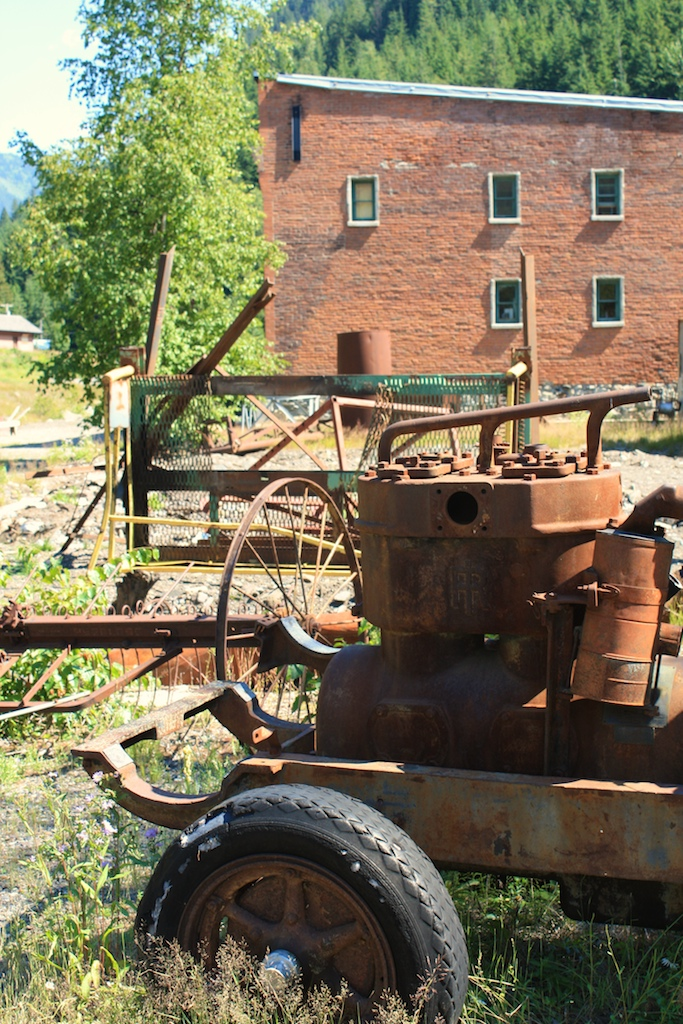 Sandon, British Columbia, Canada. A former silver mining town, it is now a ghost town with several buildings still intact.